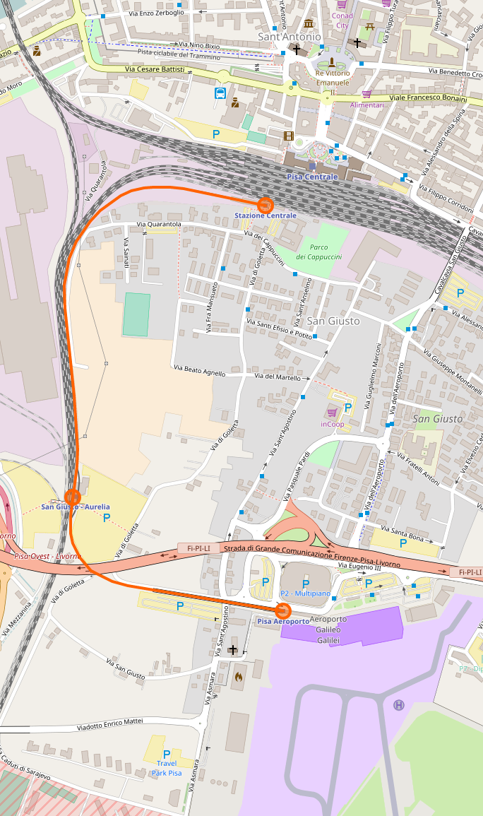 Map of Pisa Mover This map may be incomplete, and may contain errors. Don't rely solely on it for navigation.